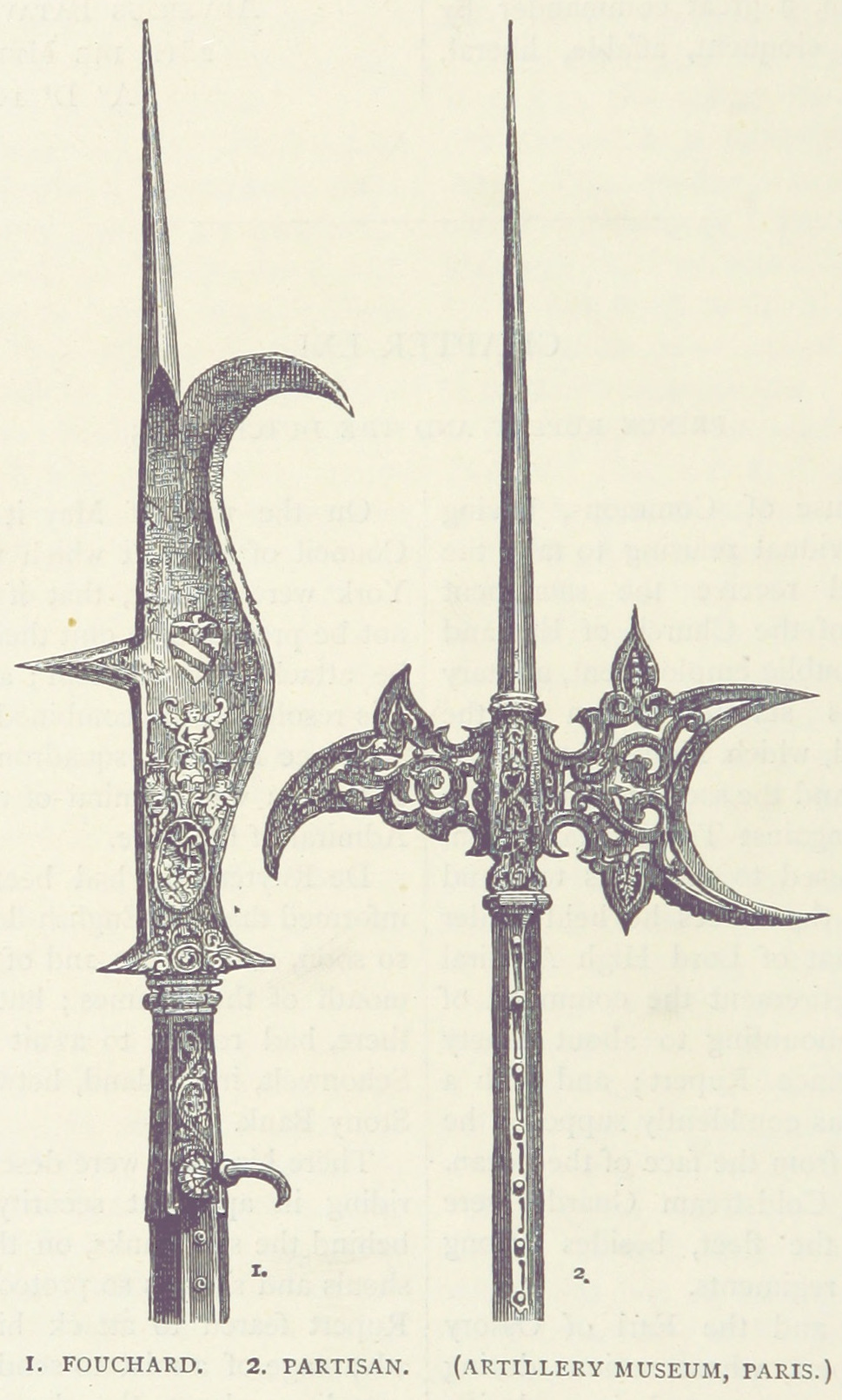 On the left is a Fauchard, which seems to match the description well enough. On the right...well, it's labelled as a Partisan, but it does not match the other images there and looks more like a halberd. So I'll leave that one alone.